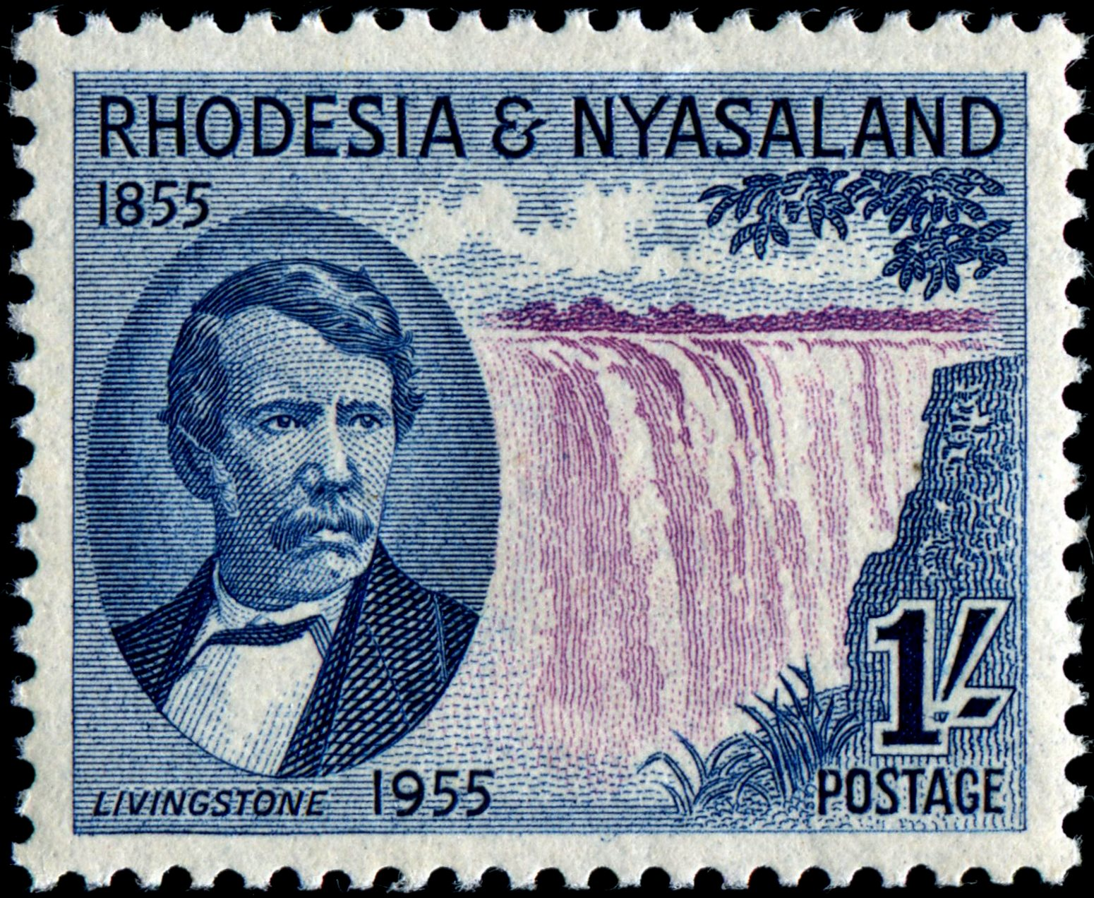 Postal stamp of Rhodesia & Nyasaland, signalling the 100th anniversary of David Livingstone's discovery of Victoria Falls.